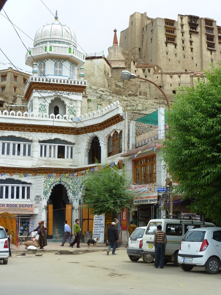 I took this photo on a trip to Ladakh in 2010